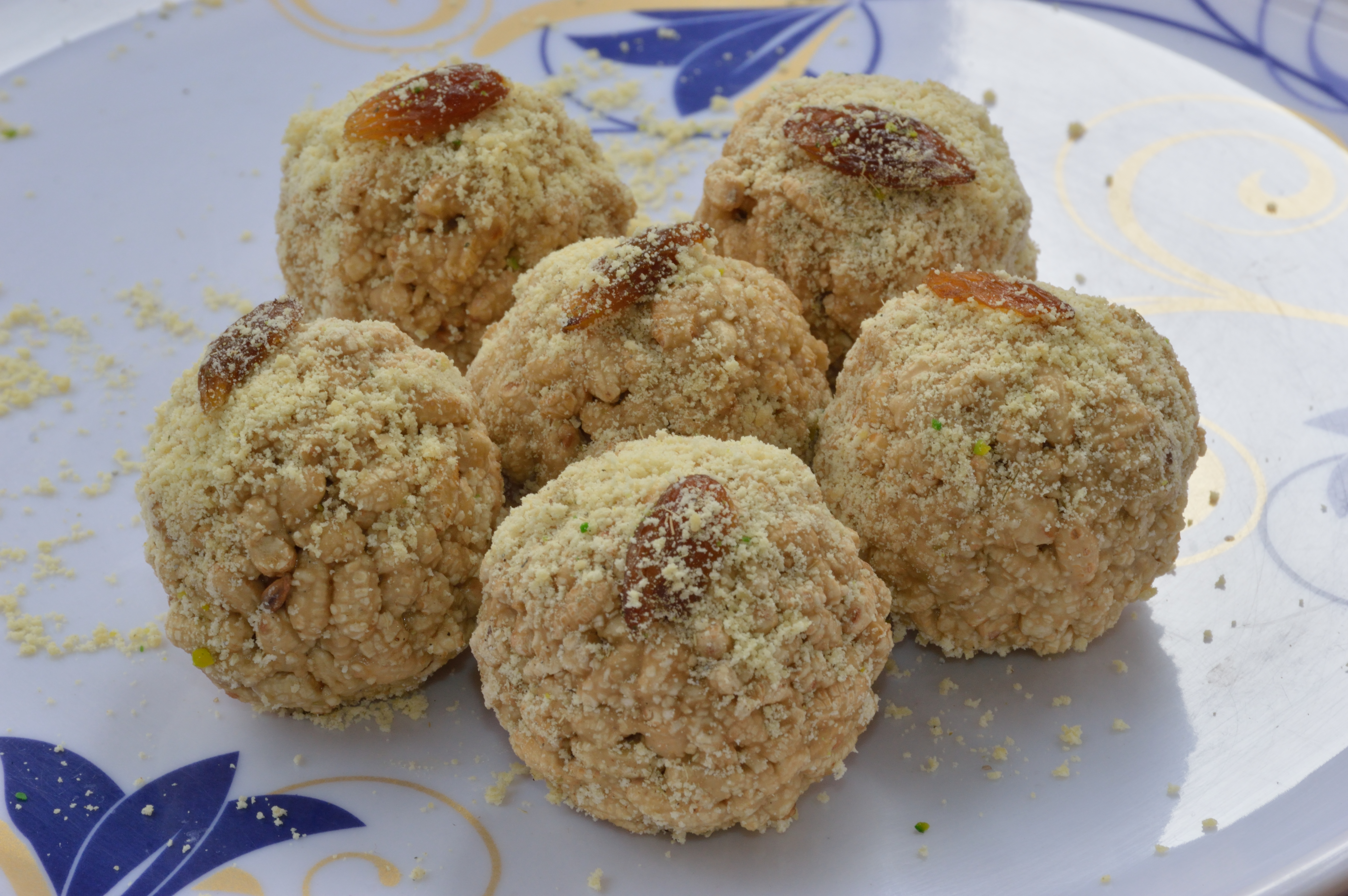 The Joynagar Moa or Joynagarer Moya (জয়নগরের মোয়া) is seasonal sweet from Bengal. Photographed in Kolkata.